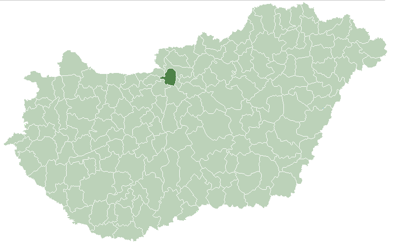 Location of subregion Szentendre, Hungary